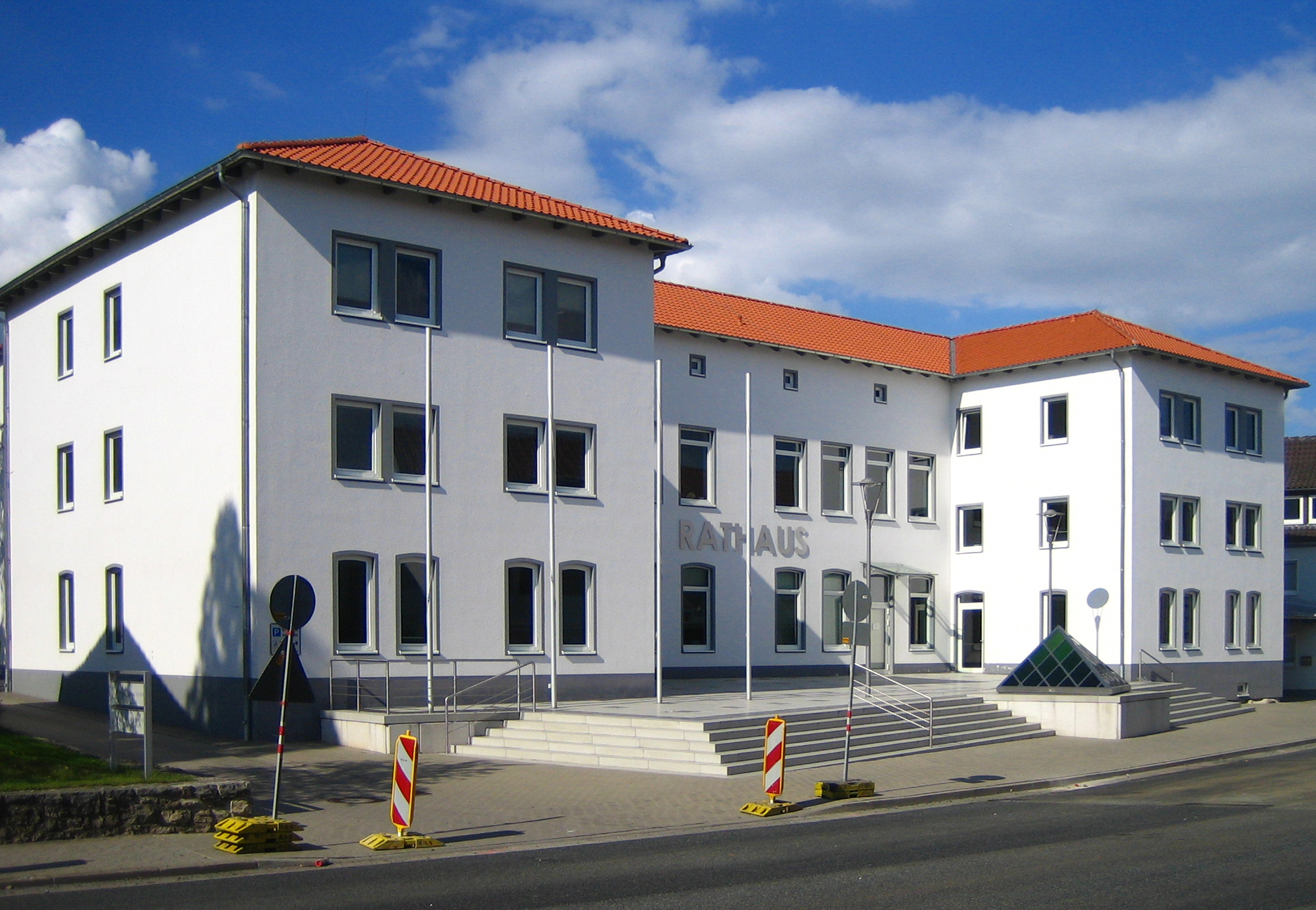 Town hall of Vechelde, Lower Saxony, Germany.